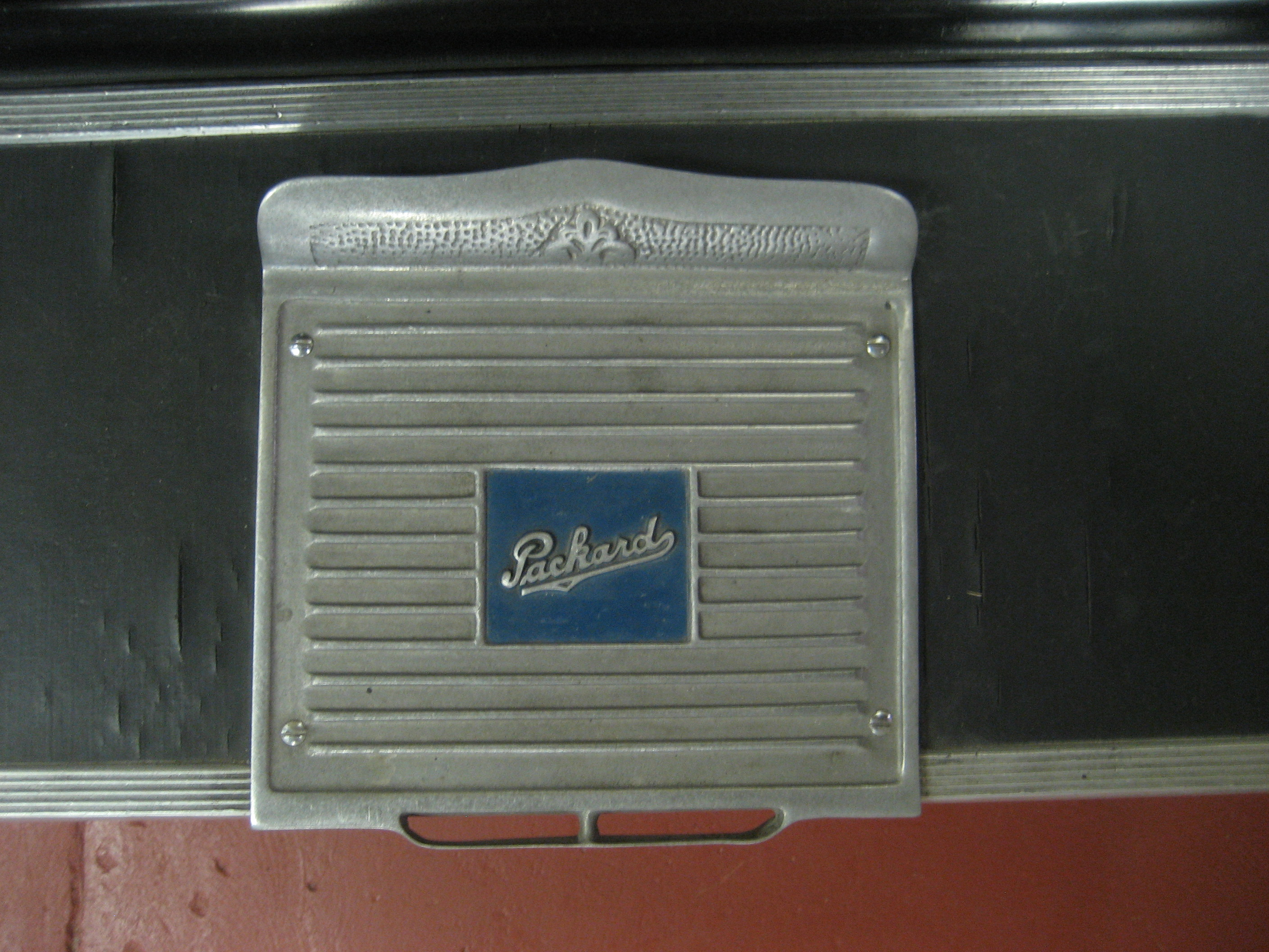 1925 Packard 216 Runabout. Detail showing bootwipe on running-board On display at Fort Lauderdale Antique Car Museum.